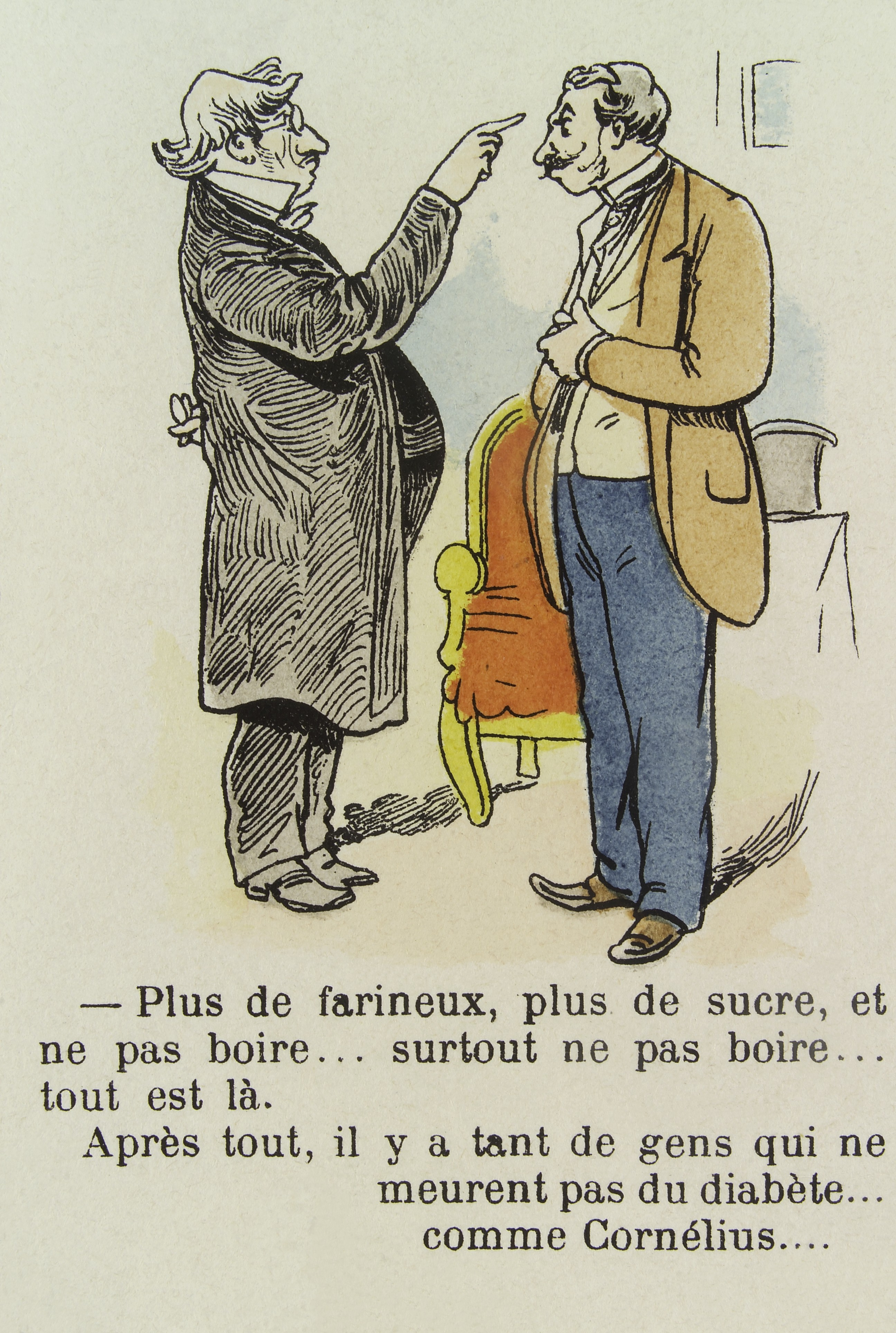 Satirical scene with doctor diagnosing well to-do man with Diabetes; taken from 19 scenes depicting popular disillsuionment with doctors and medicine. Coloured wood engraving with watercolour by Henriot c.1900. Iconographic Collections Keywords: Medicine; Henriot; Satire; Cartoons; Diabetes